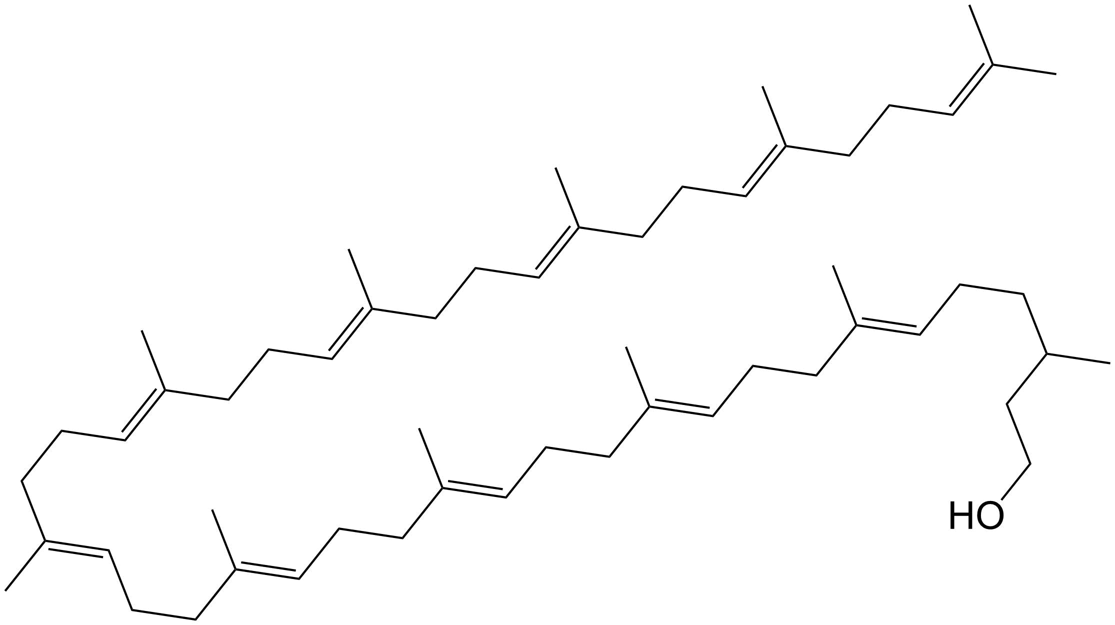 Bactoprenol 2D molecular structure